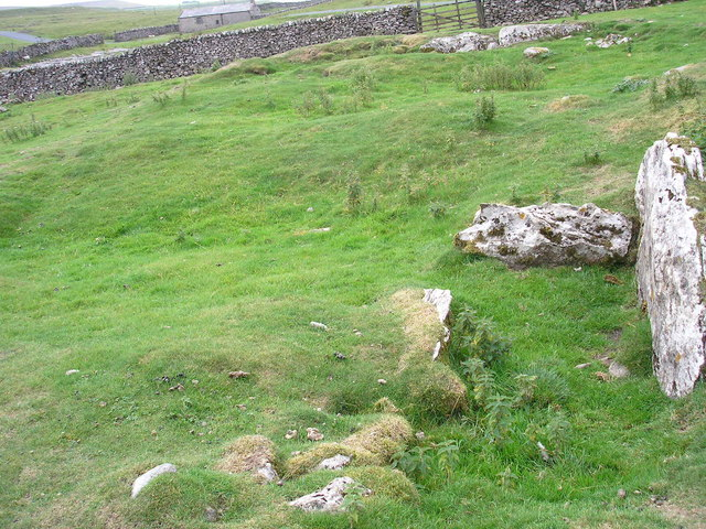 Giant's Grave. This was a neolithic burial mound excavated in 1936 to reveal two stone flag built burial cists (boxes) with fragments of bone and teeth.